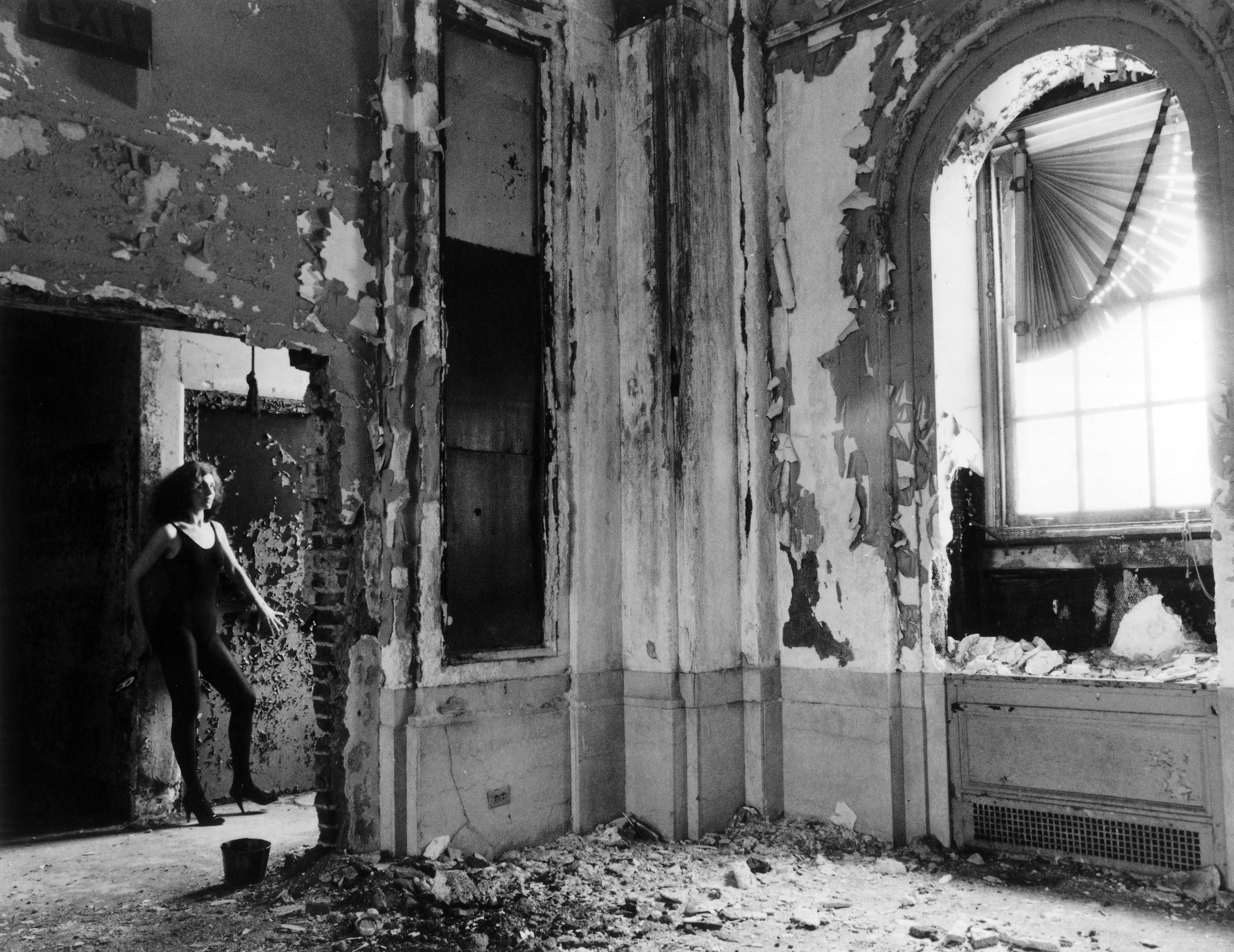 Carol M. Highsmith's photograph of a model in the Willard Hotel before restoration